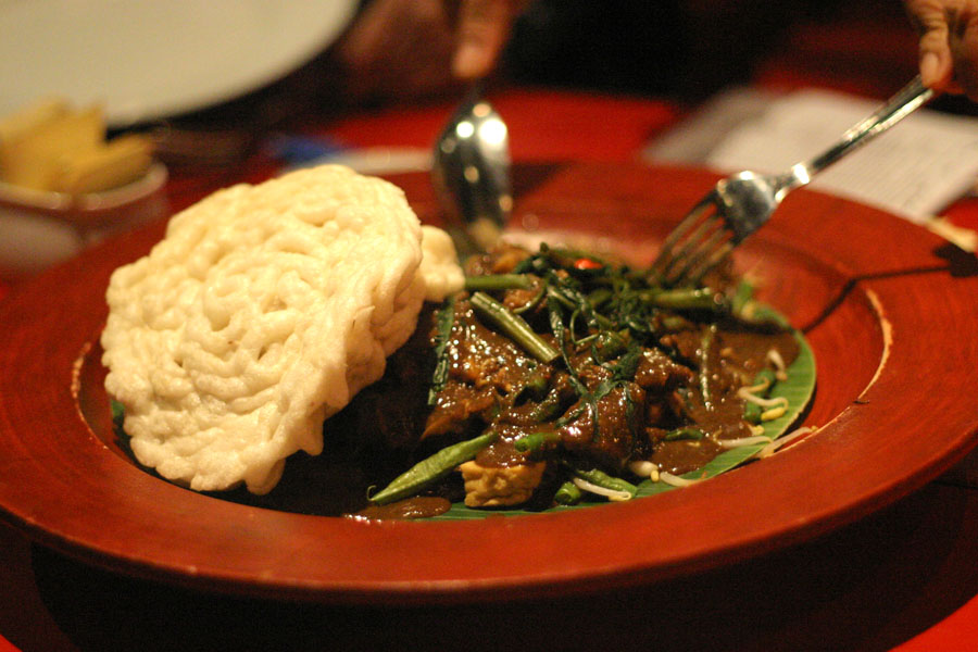 Rujak Cingur: traditional east javanese dish made from cow's lips and vegetable